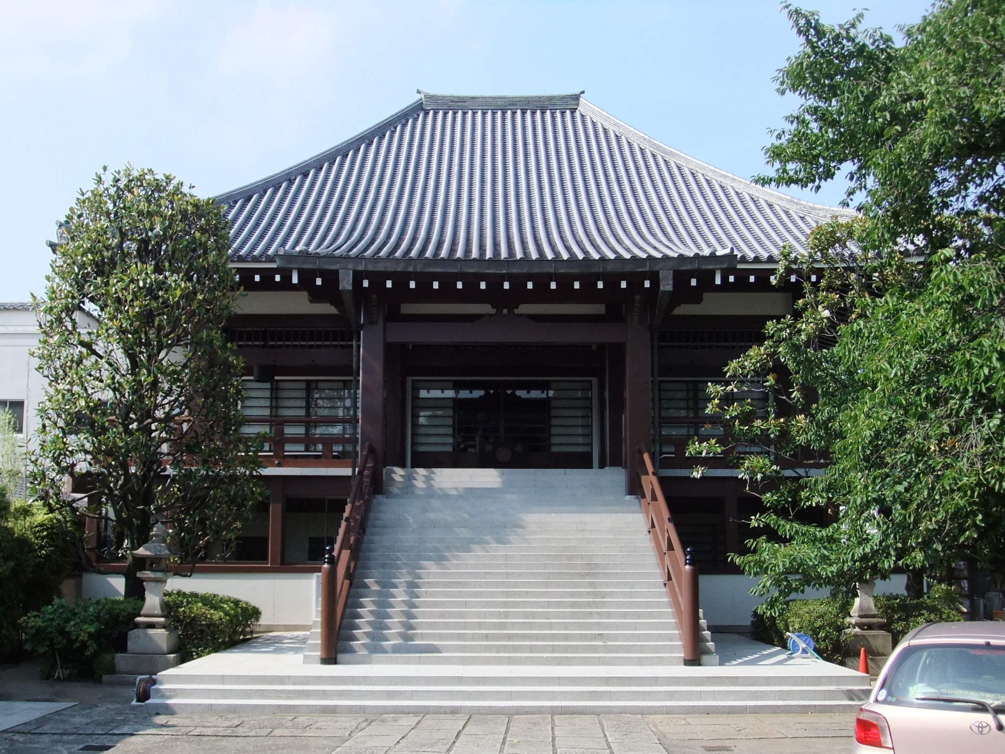 Main Hall of Zenshōan temple in Taitō, Tokyo